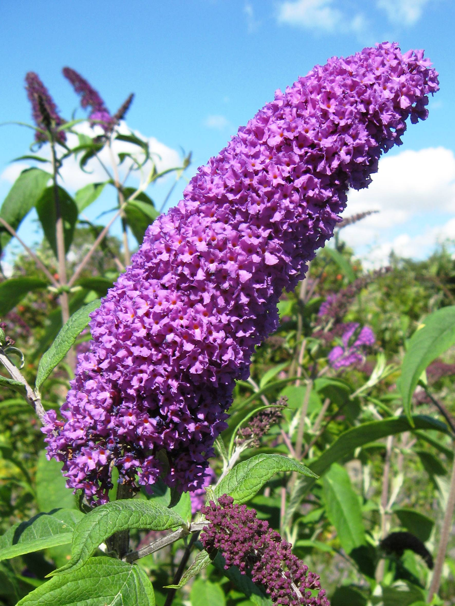 Photo of Buddleja cultivar 'Dubonnet' taken at Longstock Park, UK, August 2012